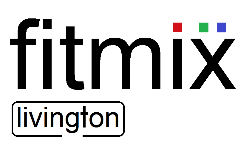 Fitmix mixers logo